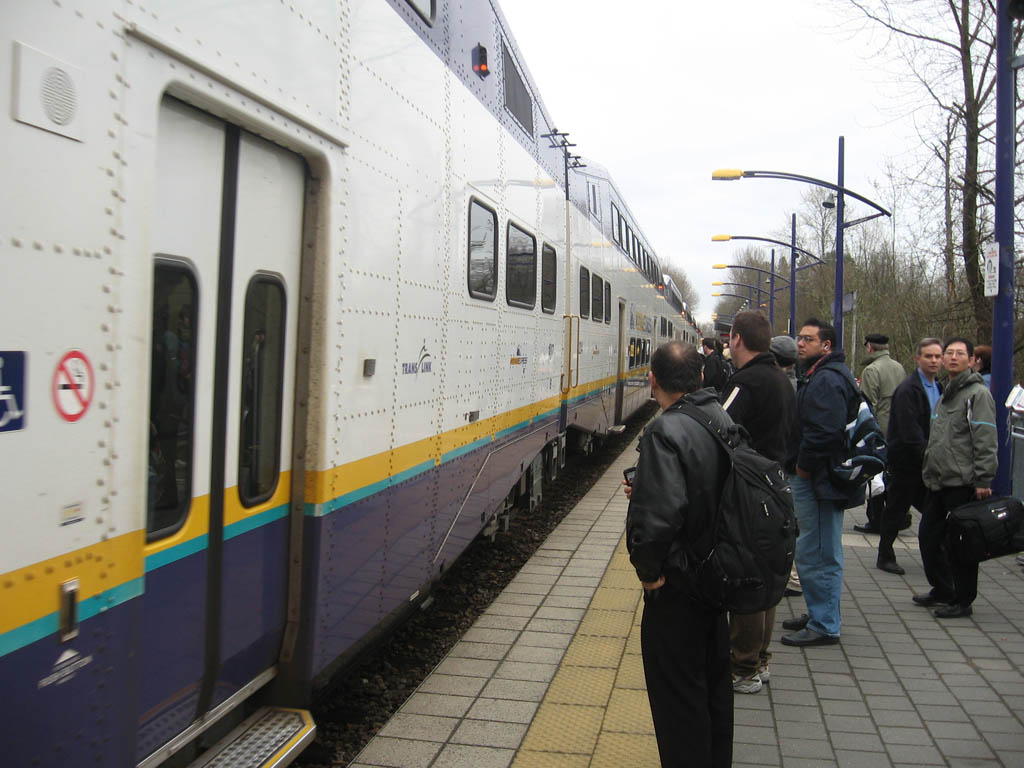 Commuters about to board the West Coast Express at Coquitlam Station, British Columbia, Canada.